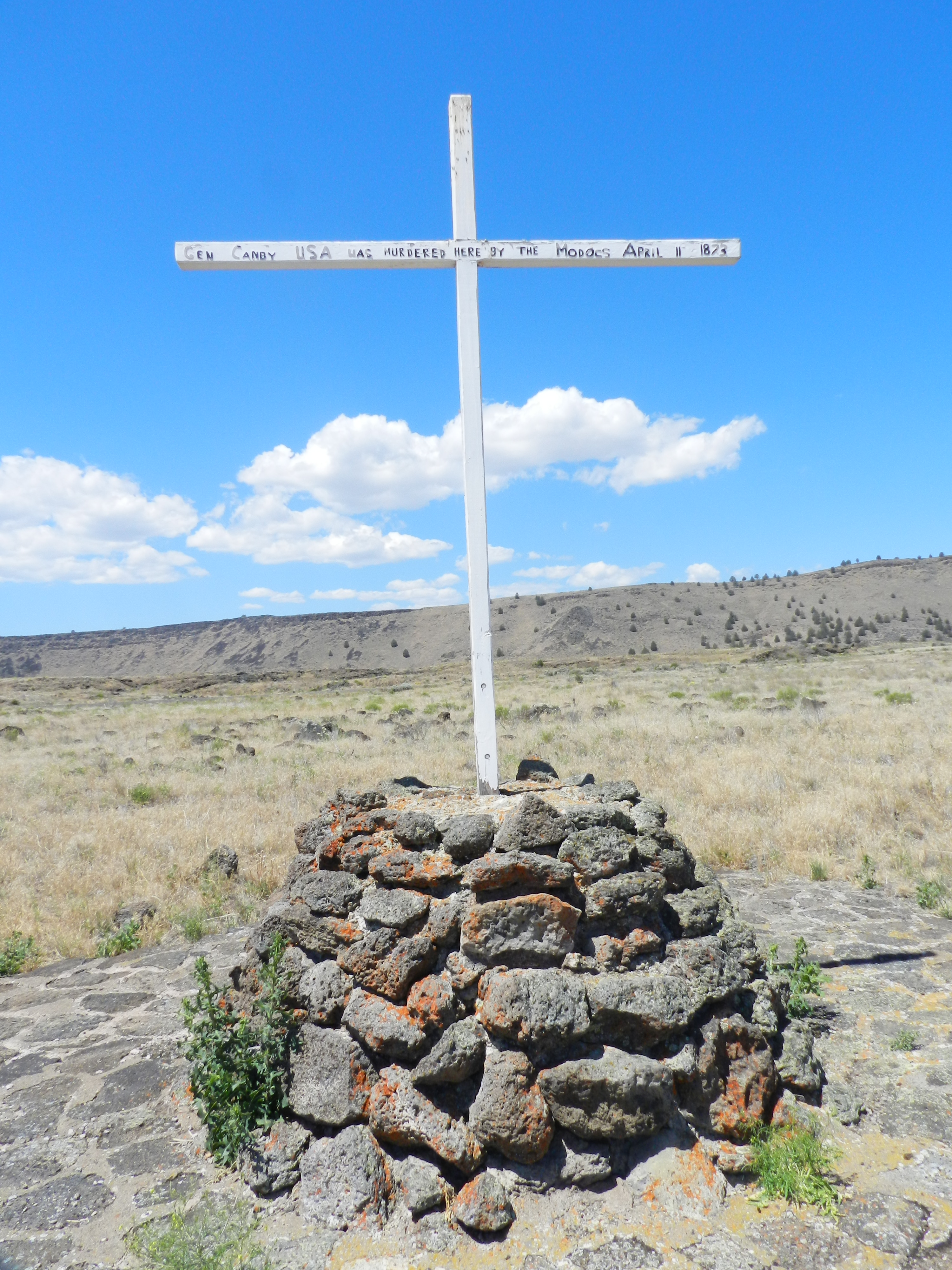 recreation of original wooden cross at site of Canby's Cross, Lava Beds National Monument, California